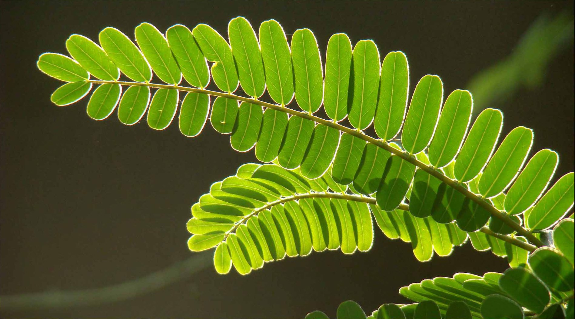 Agati or hummingbird tree/scarlet wisteria is a small tree in the genus Sesbania.